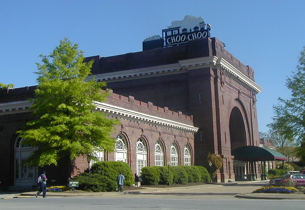 The Terminal Station in Chattanooga, home of the Chattanooga Choo-Choo.